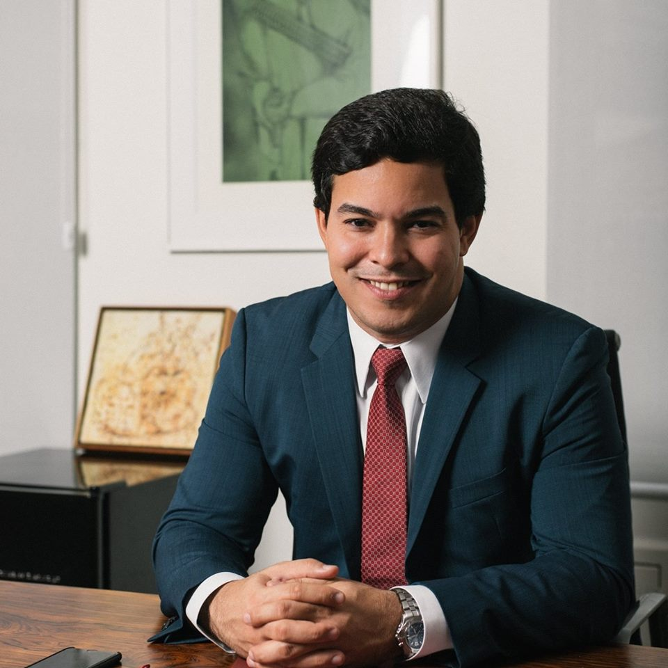 Tácio Lacerda Gama